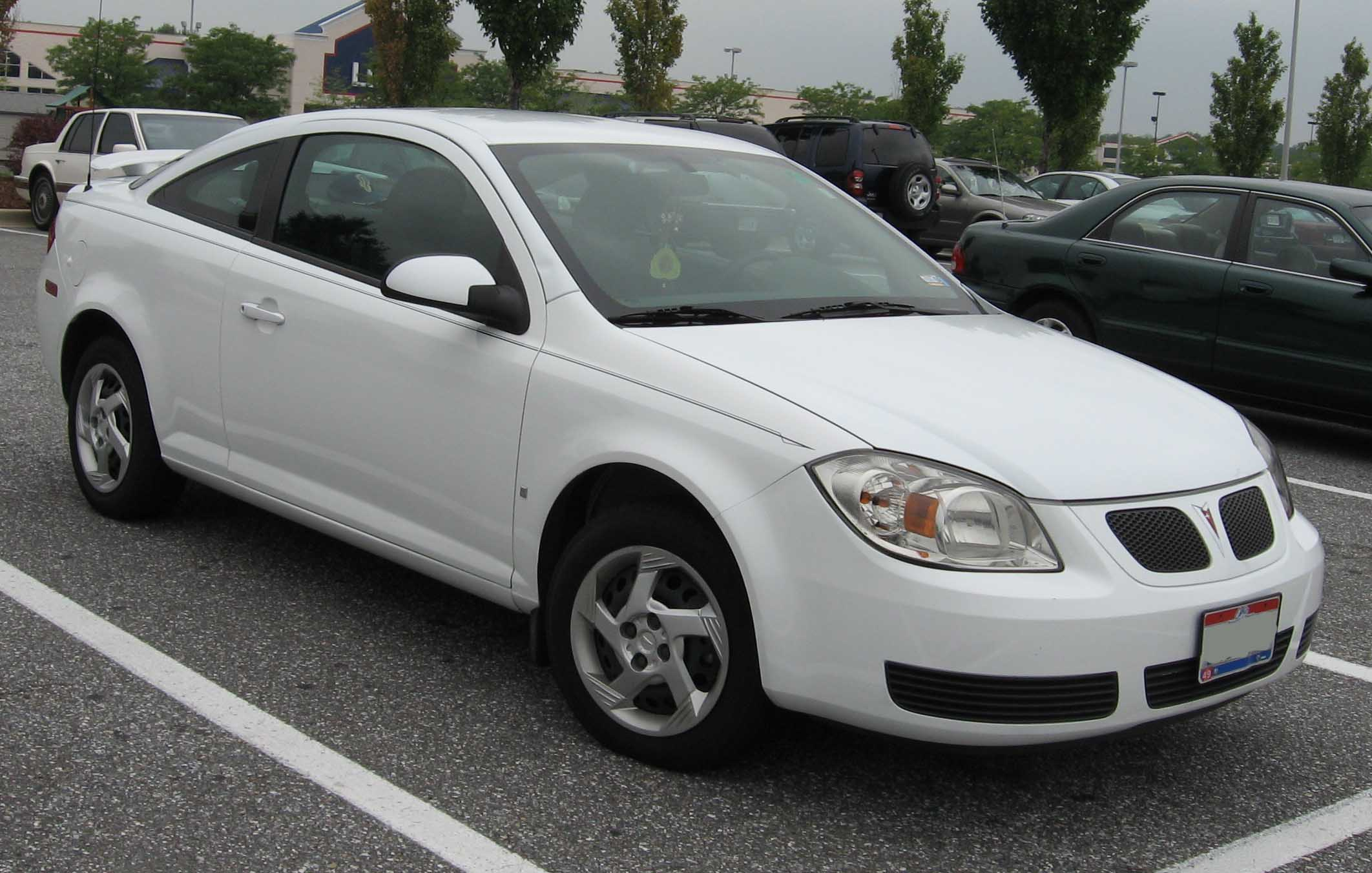 2007 Pontiac G5 photographed in USA.